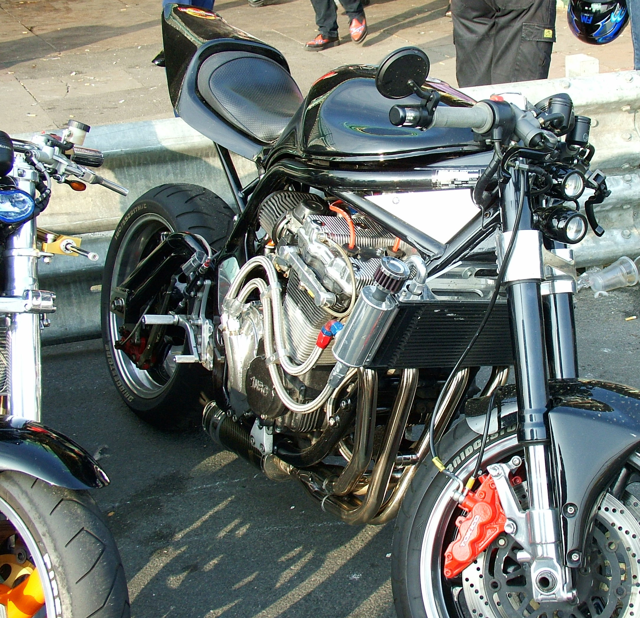 Streetfighter motorcycle